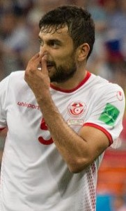 Oussama Haddadi